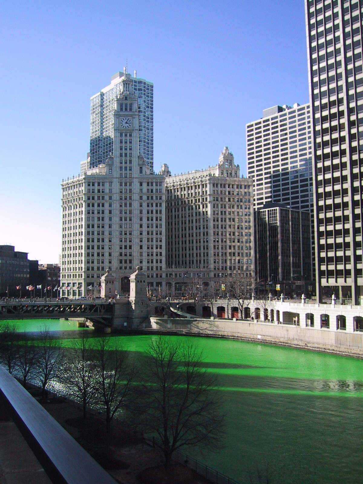 Photographer: flickr:mmarchin